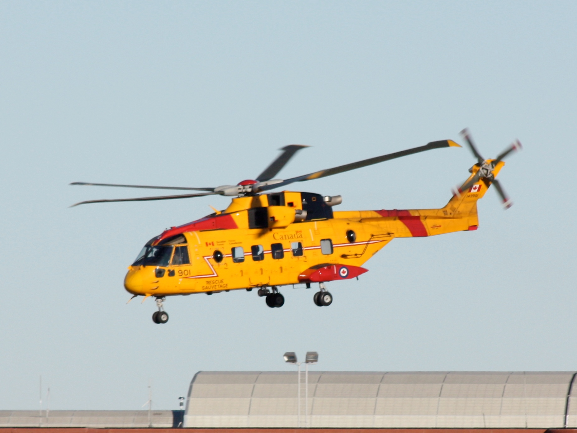 Canada Air Force Search and Rescue Cormorant helicopter.